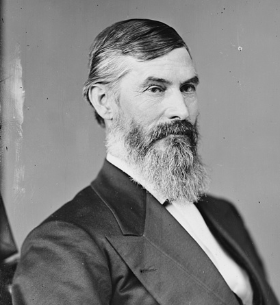 Kentucky Congressman John D. Young